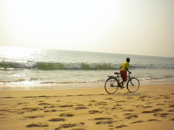 This is an image with the theme "Africa on the Move or Transport" from: Angola